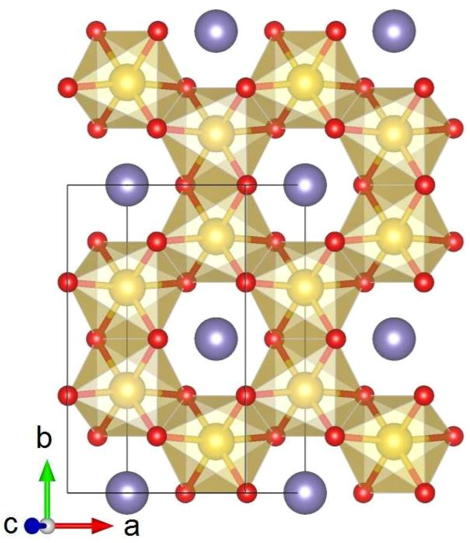 Refined crystal structure of a-Li2IrO3, showing unit cell as a black outline, Ir as gold spheres, Li as purple and O as red. Basal plane layer showing the honeycomb of edge-sharing IrO6 octahedra.